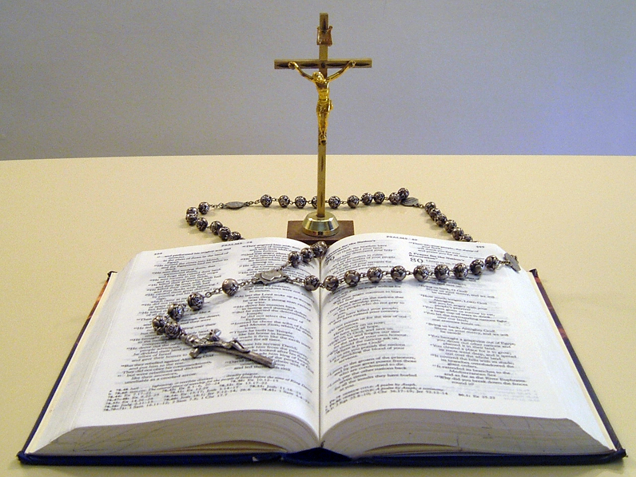 Christian Bible, rosary, and crucifix.